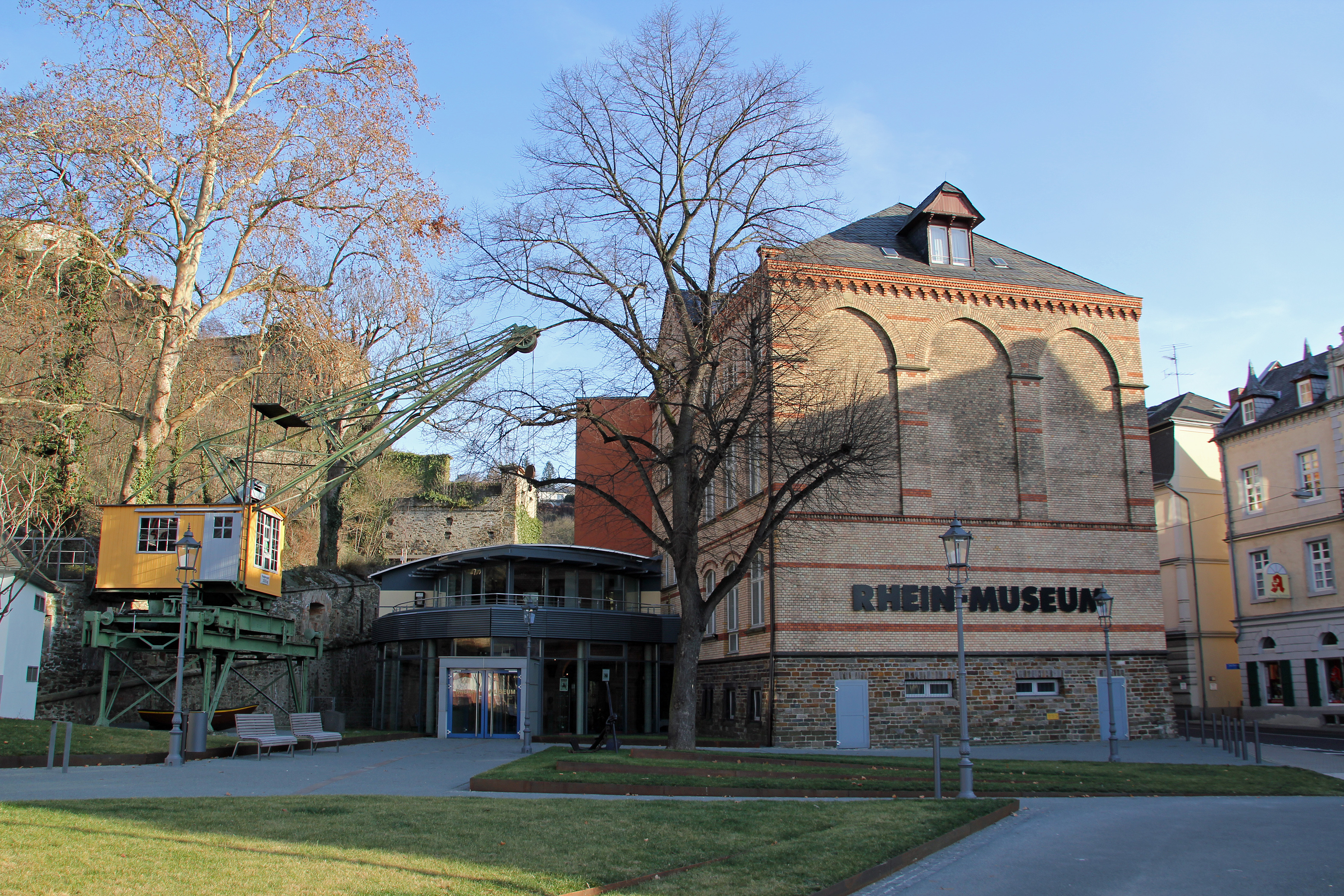 Rhein-Museum in Koblenz-Ehrenbreitstein